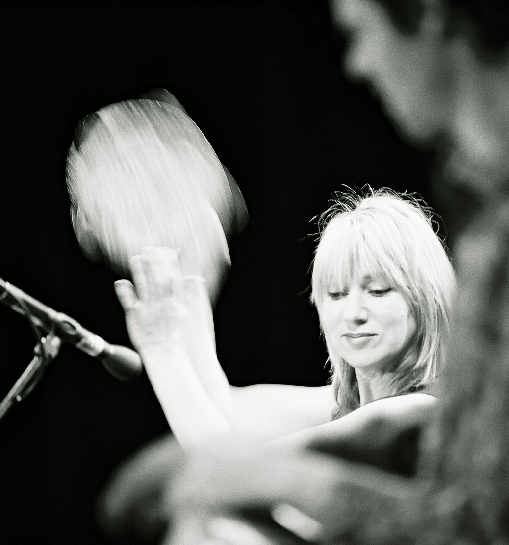 photo taken in perf denmark